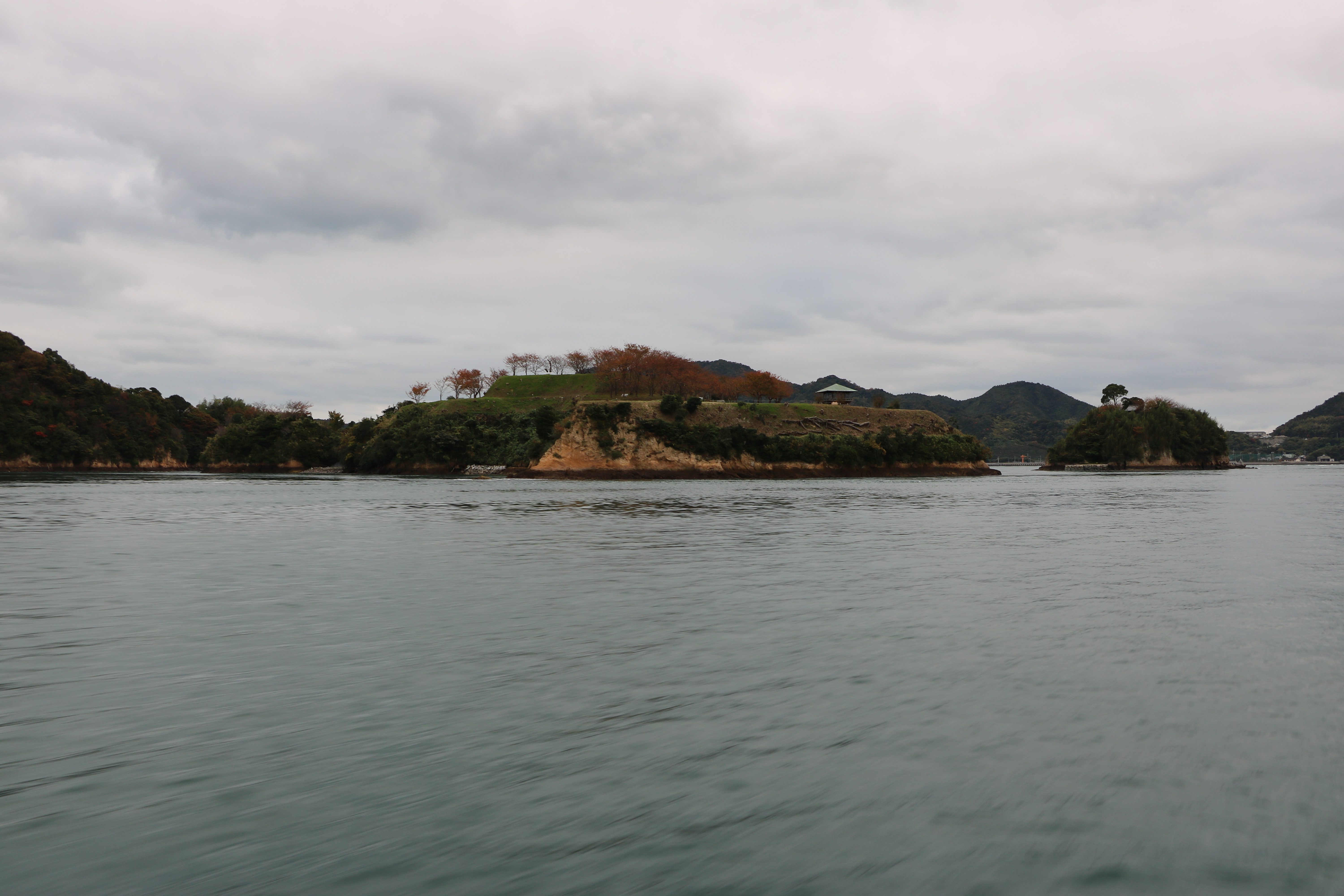 Noshima Castle ruins.Shooting from the sea on the northwest side.